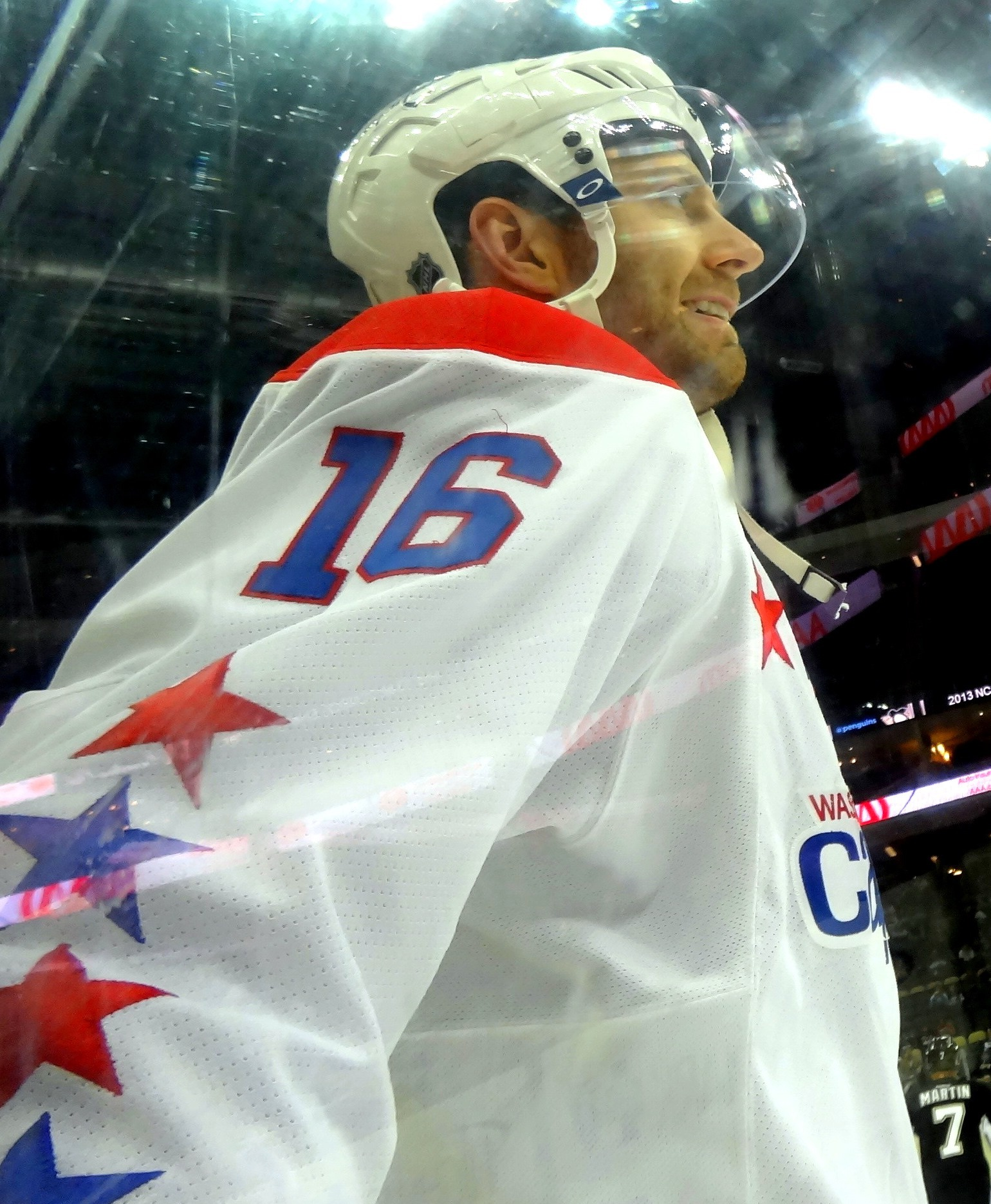 Washington Capitals forward Eric Fehr warms up for a game against the Pittsburgh Penguins, March 19, 2013 at Consol Energy Center in Pittsburgh, PA. Photo by PensAreYourDaddy.